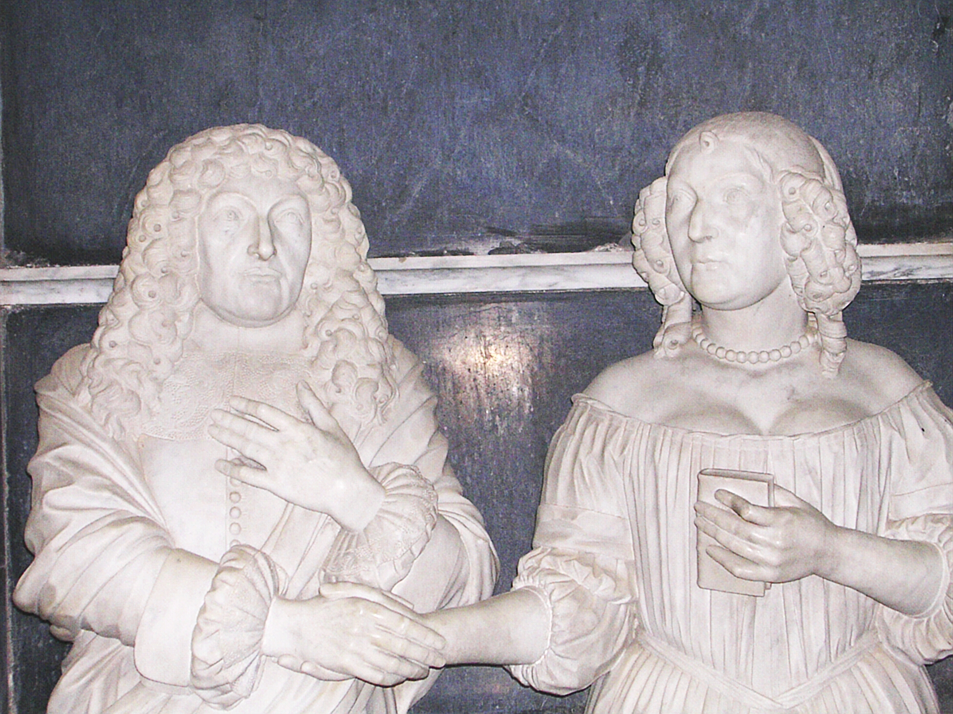 Tomb of Sir John Brownlow I. Belton Church. England. Photographed by Giano June 2006. Retouched by Rugby471.